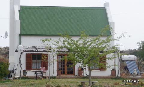 Example of house with solar-boiler in Orania in South Africa.